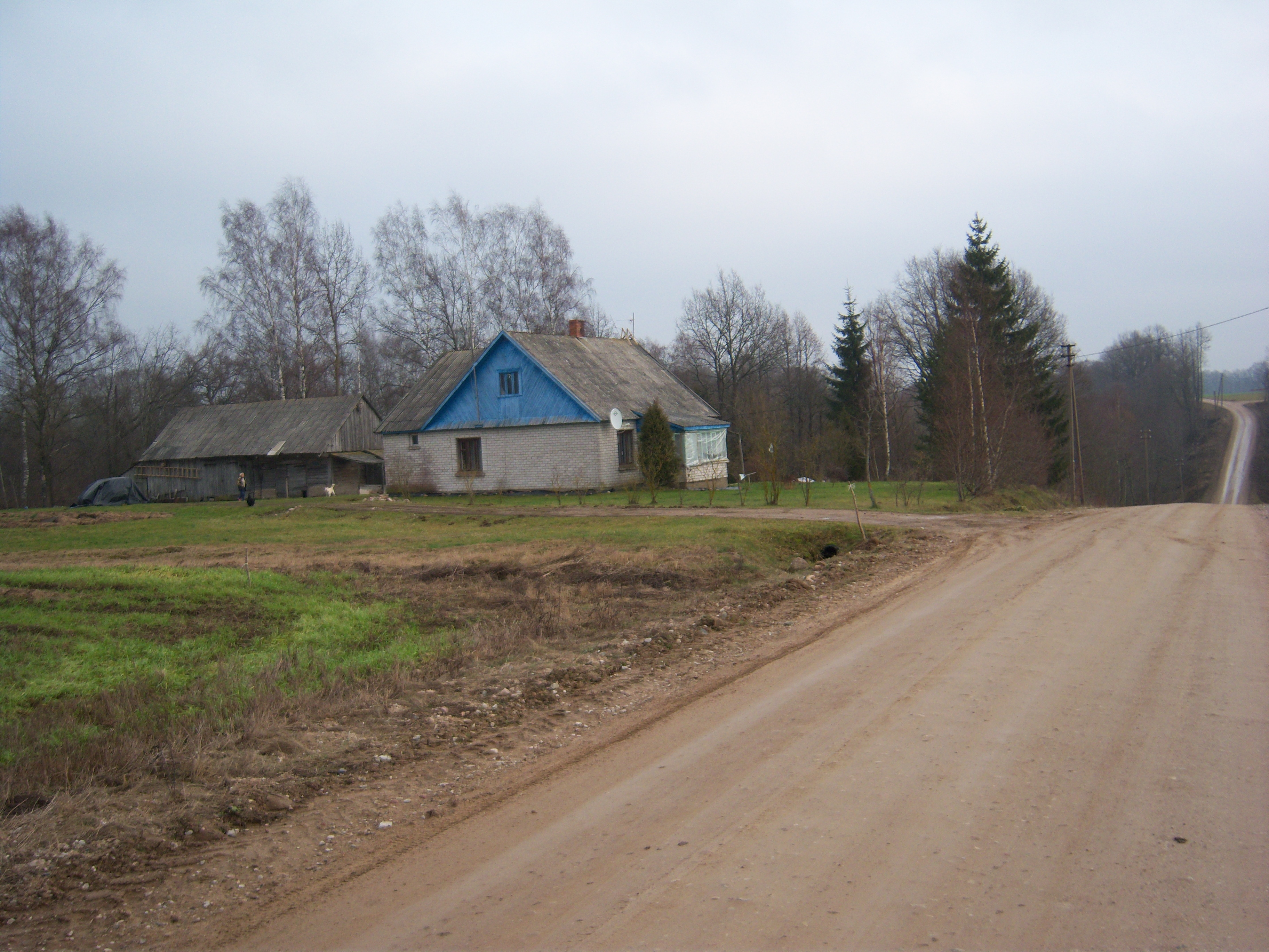 Paskirtinis, Raseiniai District, Lithuania